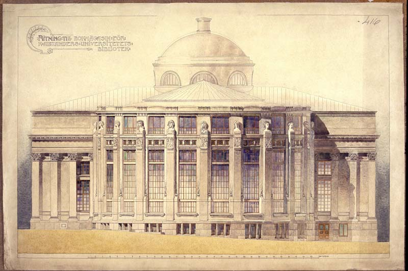 Facade of the Rotunda, National Library of Finland